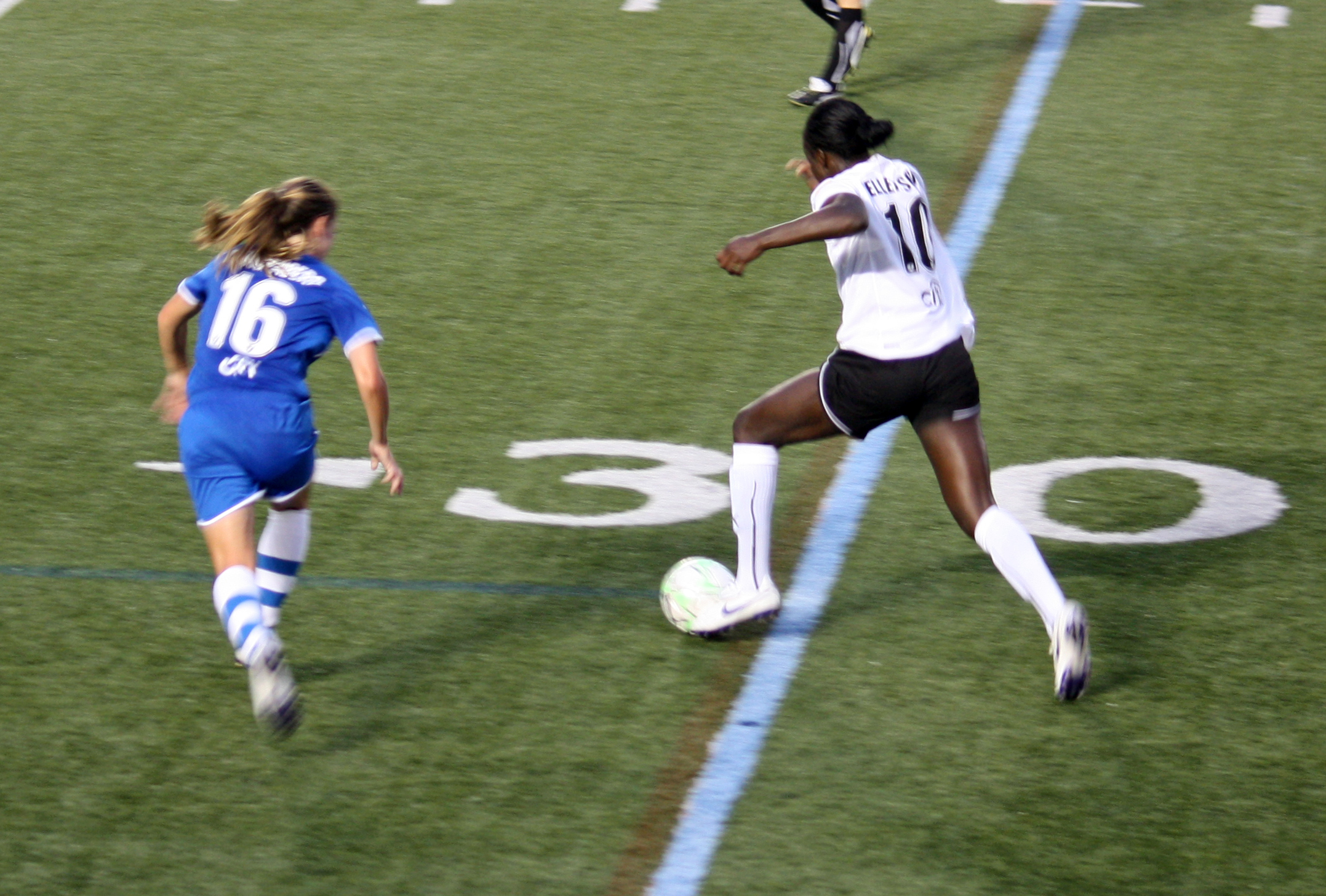 Tina Ellertson makes her move upfield during magicJack's 2-0 win over the Boston Breakers, Saturday, August 6 at Harvard Stadium in Boston, Mass.